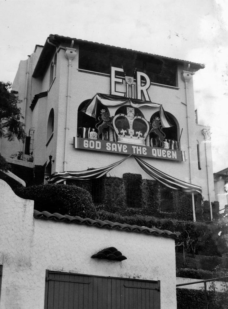 House on Hamilton Hill, originally known as Cassa Anna, decorated for the visit of the Queen and Duke of Edinburgh to Brisbane in 1954 A Spanish Residence. New residence for Mr. E.F. Powers, Hamilton; walls to be of stucco, with wrought iron ballustrading to piazza and iron grilles to windows. The roof will be covered with Spanish type of Cordova tiles, manufactured by Messrs. Shannon Brick and Tile Company and used for the first time in Queensland. - E.P. Trewern, architect. (Information taken from: The architectural and building journal of Queensland, 10 November 1927.).